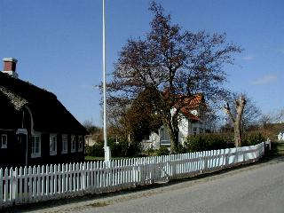 April month: Early Spring in Sønderho, Denmark.